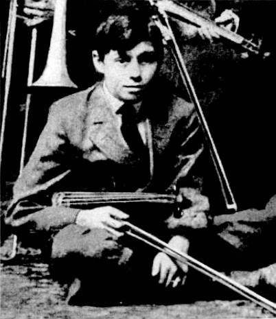 Life magazine ad for Jello featuring Jack Benny, 1937. Photo of young Benny in the Waukegan High School Band, 1909. Copyright details There are no copyright marks on the full pages of the ad, as can be seen at the link above. The pages are clearly marked as advertisements, so they are not a part of any Life Magazine copyrights. US Copyright Office page 3-magazines are collective works (PDF) "A notice for the collective work will not serve as the notice for advertisements inserted on behalf of persons other than the copyright owner of the collective work. These advertisements should each bear a separate notice in the name of the copyright owner of the advertisement." Image can be dated from the magazine's date, October 4, 1937.